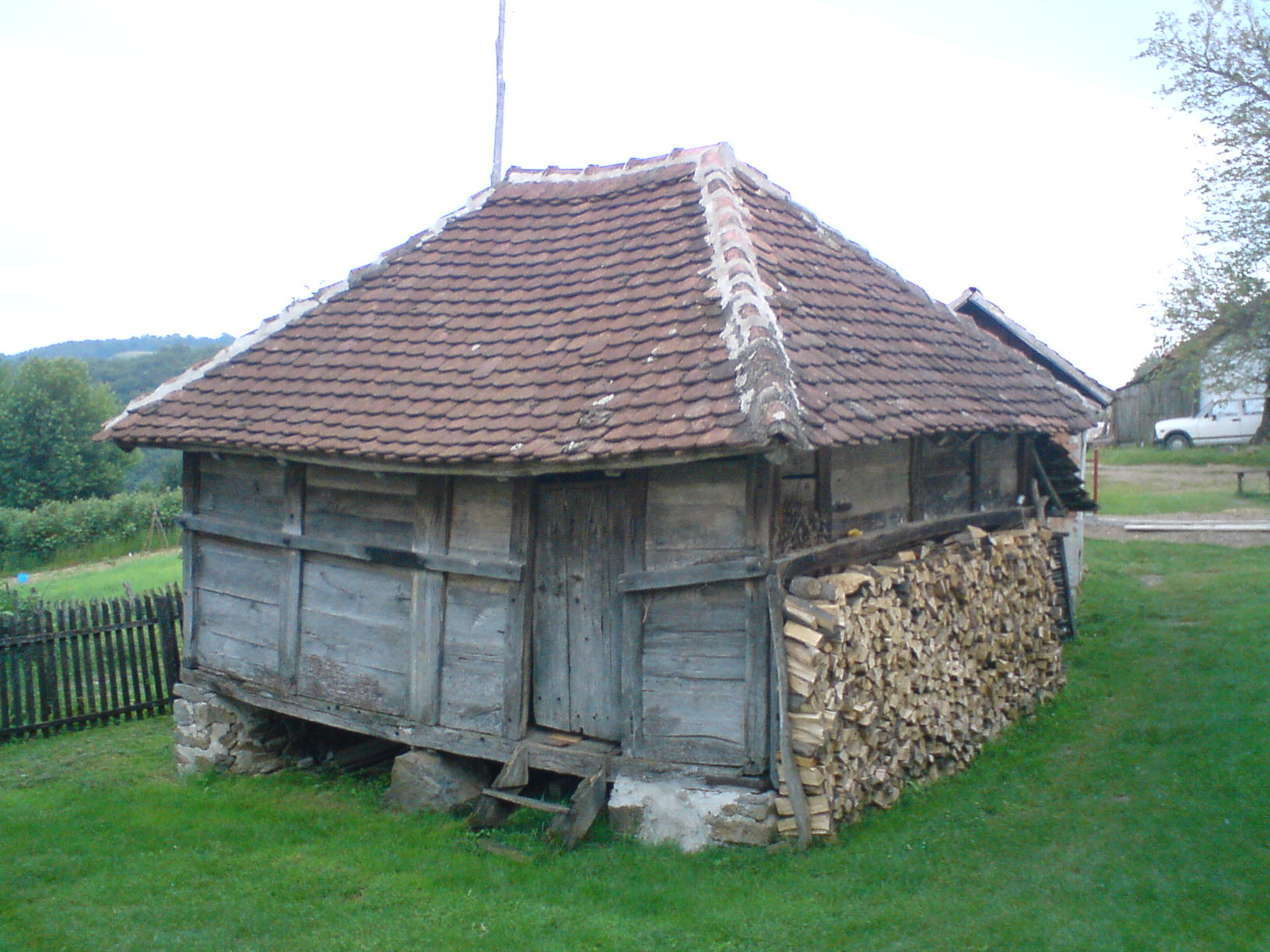 Wooden house